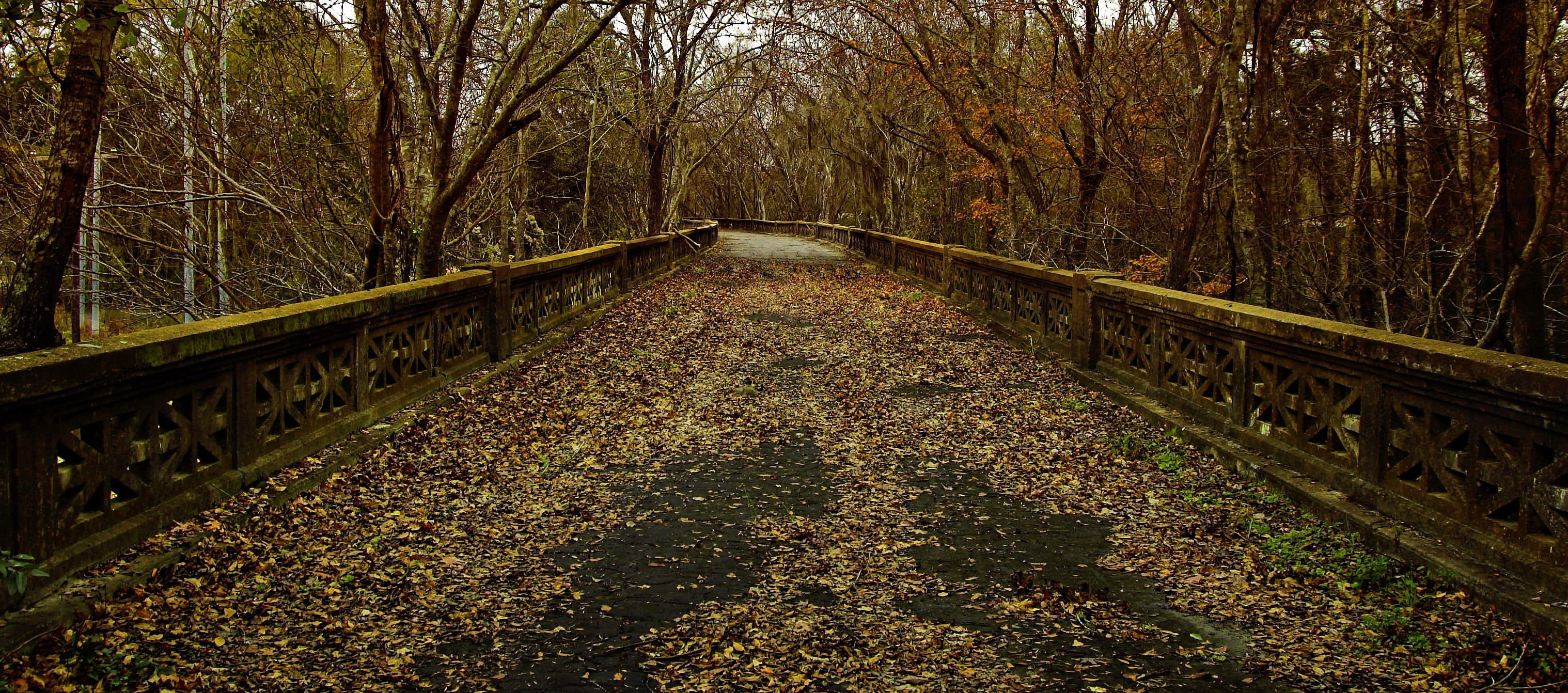 Victory Bridge, highway US 90 over the Apalachicola River in the Florida Panhandle, USA.